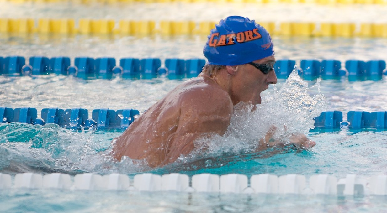 Ryan Lochte earned a close victory in the 400 individual medley. Photo copyright by JD Lasica. for republication rights.